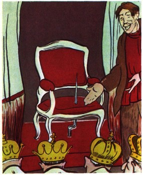 Would you like to sit down on the throne? Russian caricature, 1917